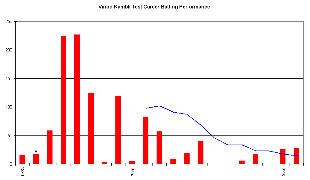 This graph details the Test Match performance of Vinod Kambli. It was created by Raven4x4x. The red bars indicate the player's test match innings, while the blue line shows the average of the ten most recent innings at that point. Note that this average cannot be calculated for the first nine innings. The blue dots indicate innings in which Kambli finished not-out. This graph was generated with Microsoft Excel 2002, using data from Cricinfo [1] and Howstat [2].